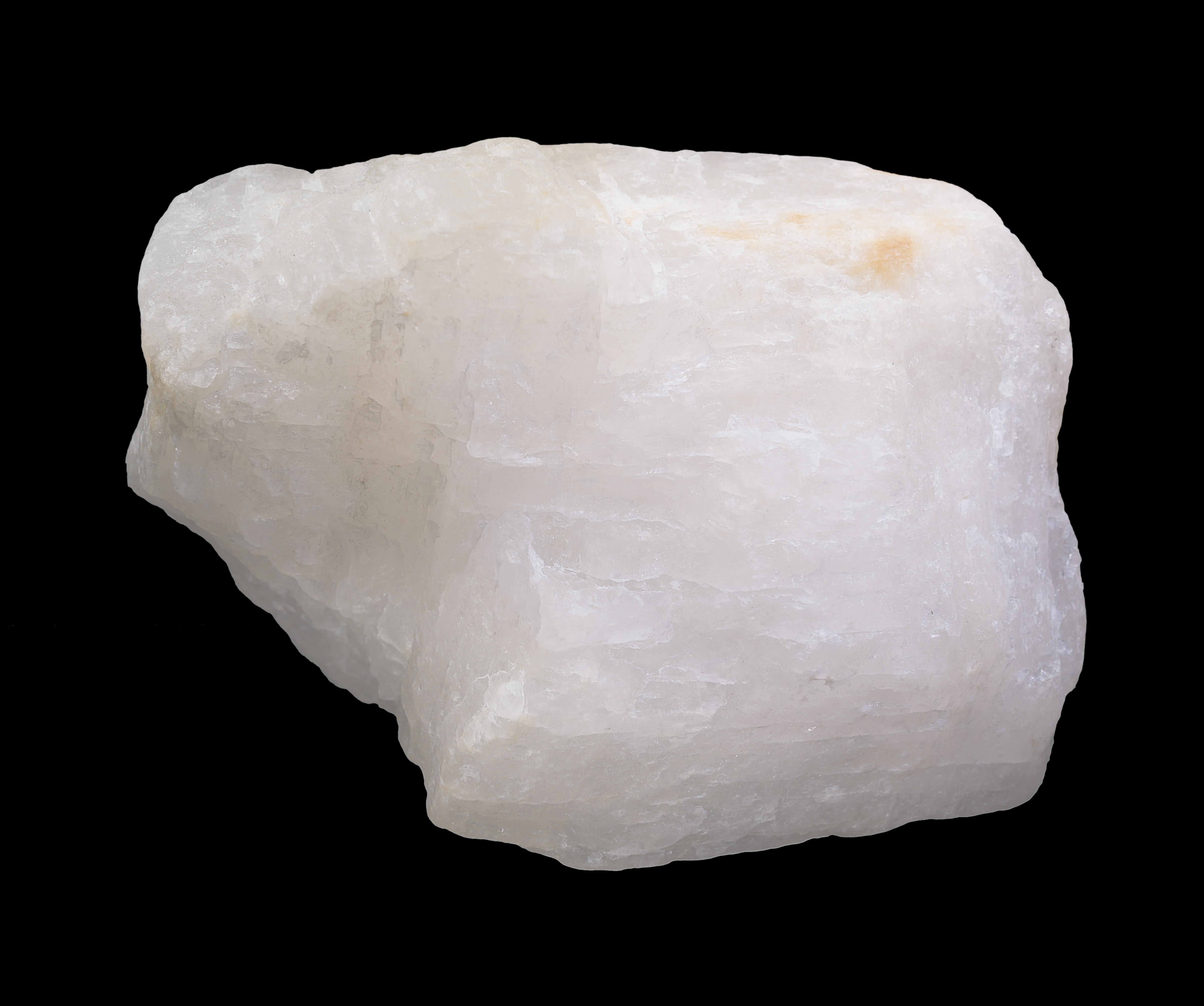 Cryolite – topotype -Former collection of the Faculty of Pharmacy of Paris Locality: Ivigtut Cryolite deposit, Ivittuut (Ivigtut), Arsuk Firth, Arsuk, Kitaa (West Greenland) Province, Greenland Size: 8.8 x 6.7 x 5 cm